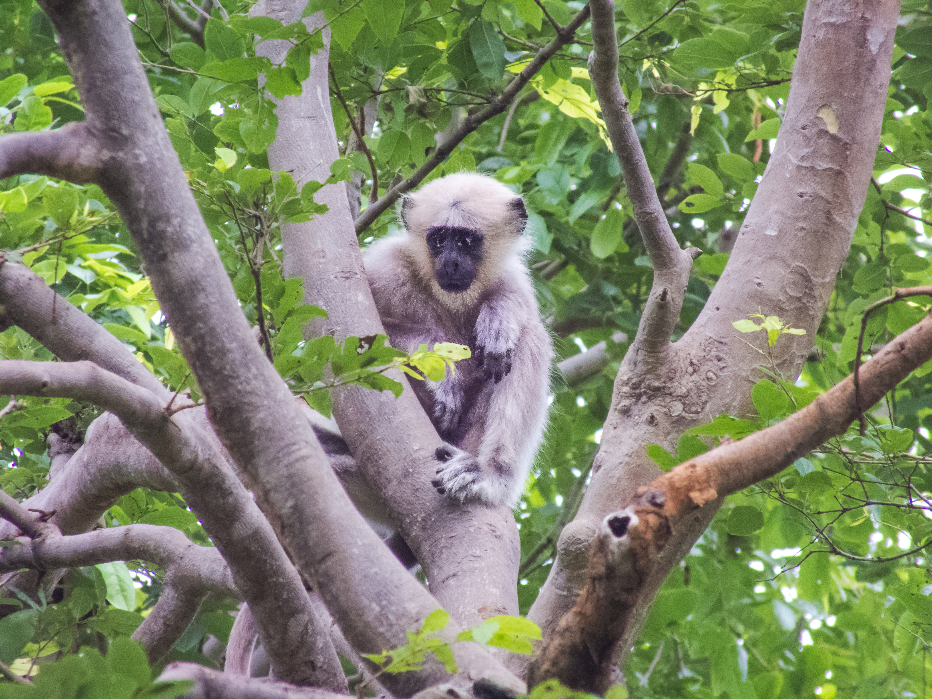 Juvenile Indian Grey Langur